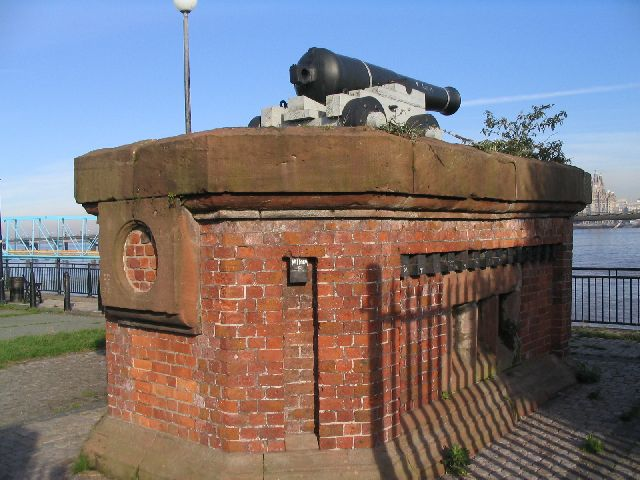 One O'Clock Gun, Birkenhead, Merseyside, England.